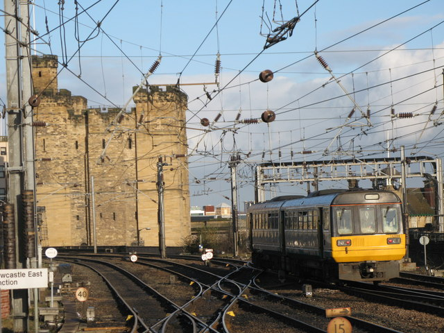 Newcastle East Junction. Looking towards 222820 (photo by Bill Henderson). A Hexham to Middlesbrough train is heading towards the 836560 (photo by Peter McDermott).